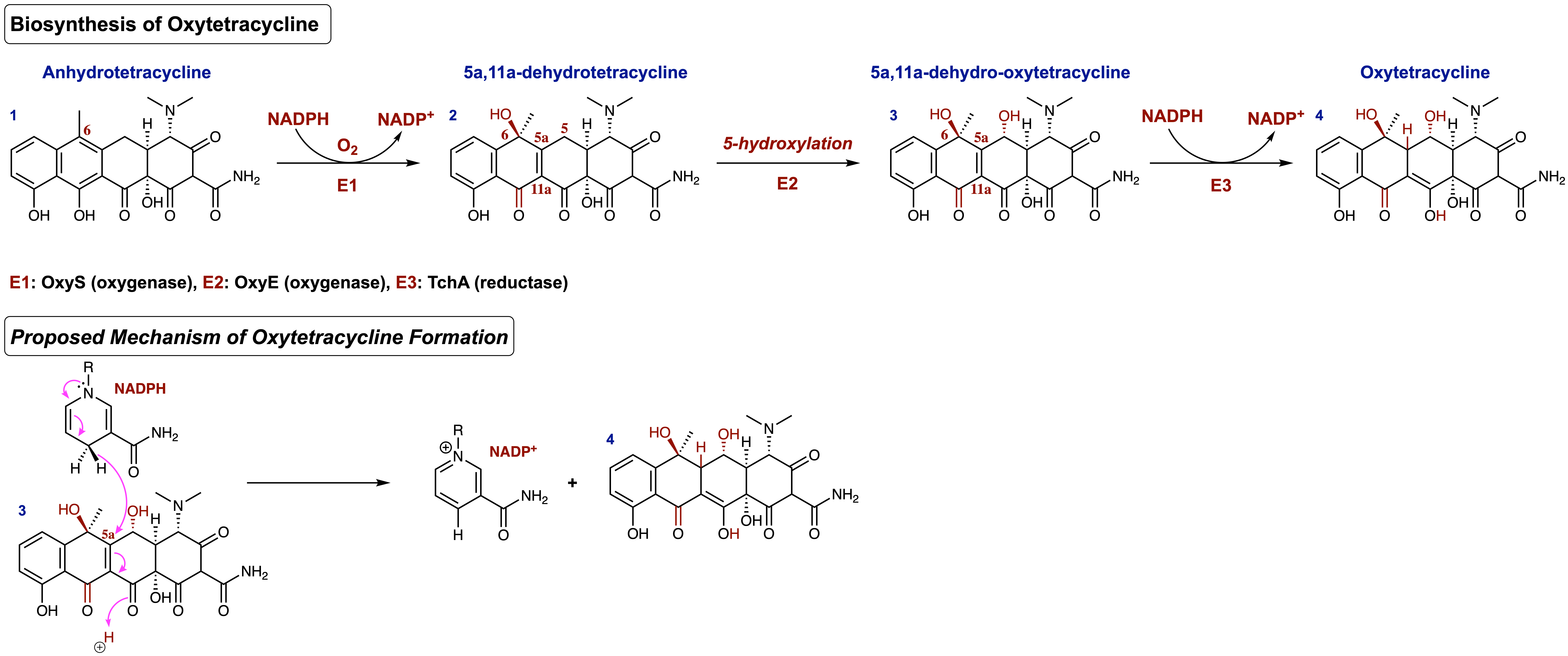 This is the Biosynthesis of oxytetracycline as described from the literature.